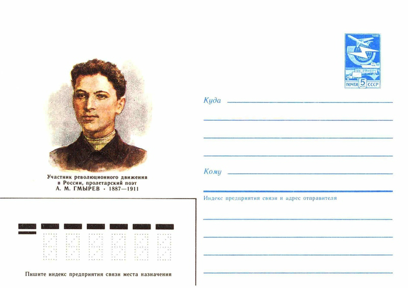 1987 Soviet envelope featuring Alexey Gmyrev.